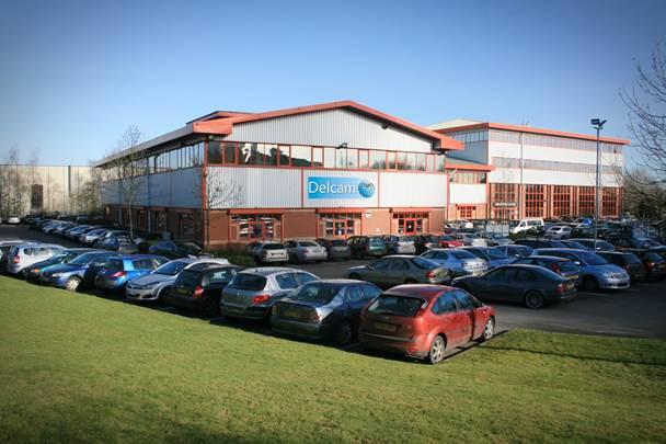 This is a lower res picture of the Delcam Plc building in Small Heath, Birmingham.